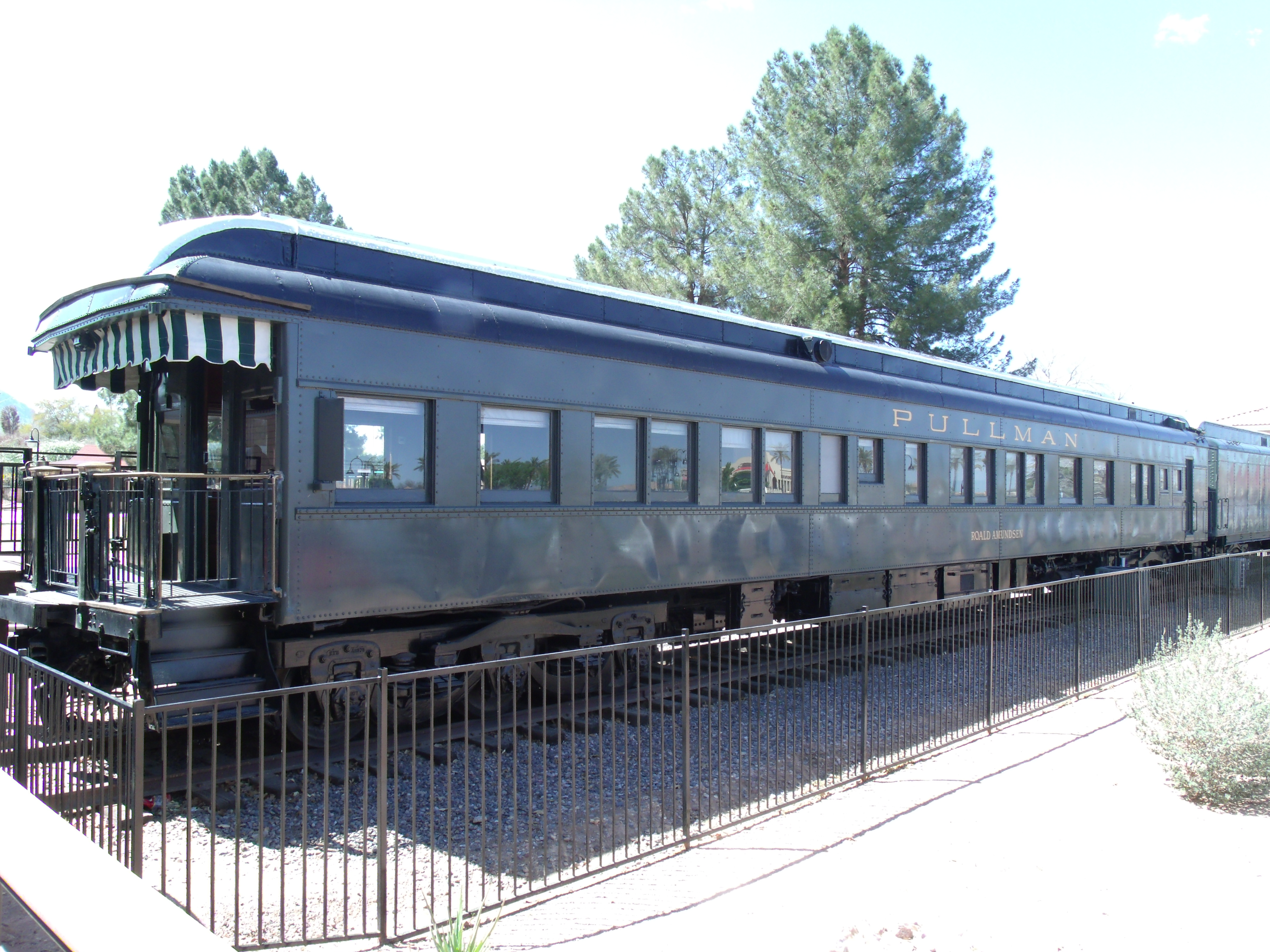 Historic (NRHP) Roald Amundsen Pullman Private Railroad Car, built 1928. Located in McCormick-Stillman Railroad Park, Scottsdale, Arizona, the Amundsen, on different occasions reportedly carried Presidents Hoover, Roosevelt, Truman and Eisenhower.